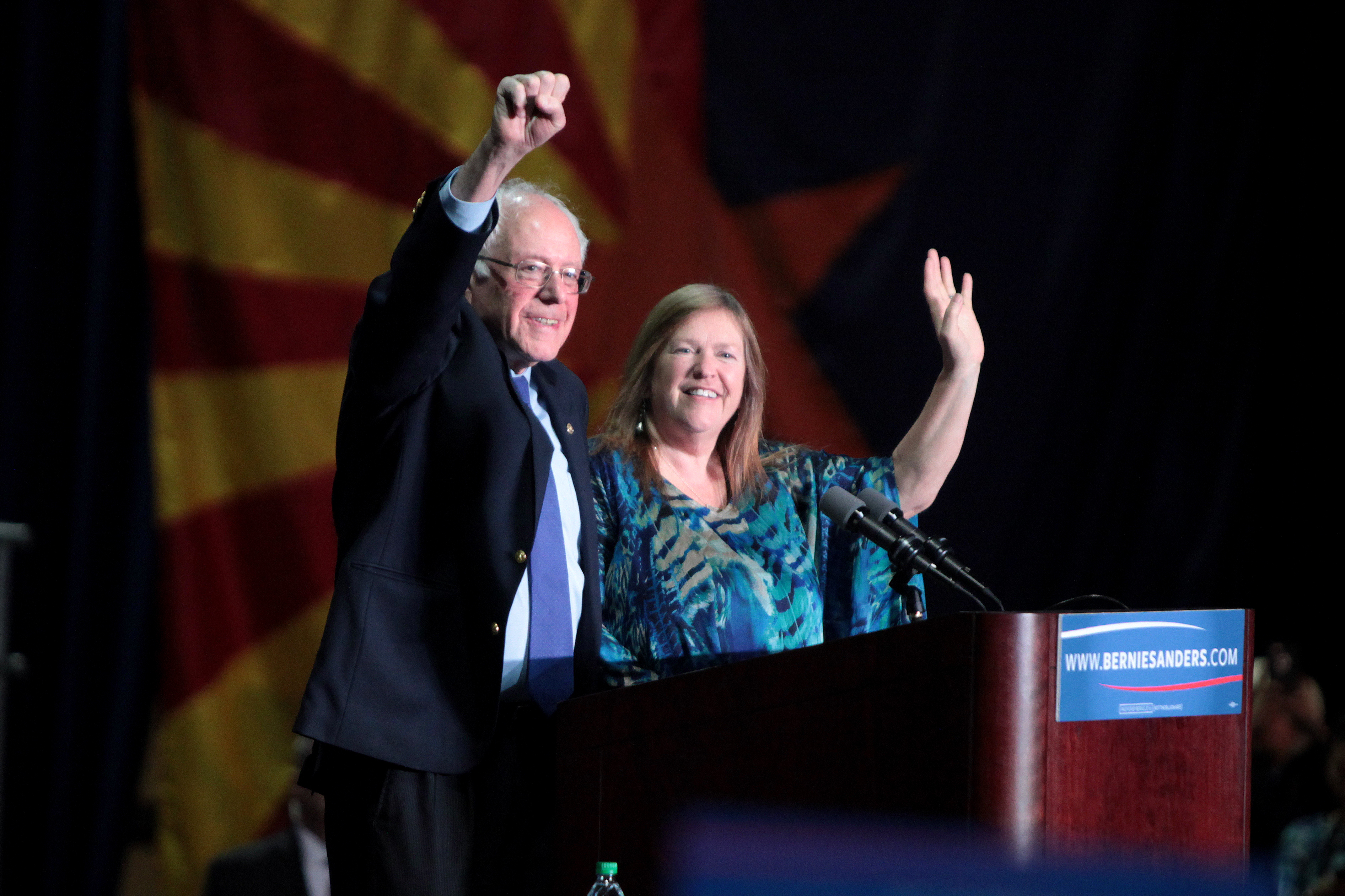 U.S. Senator Bernie Sanders and his wife, Jane Sanders, speaking with supporters at a campaign rally at the Phoenix Convention Center in Phoenix, Arizona.